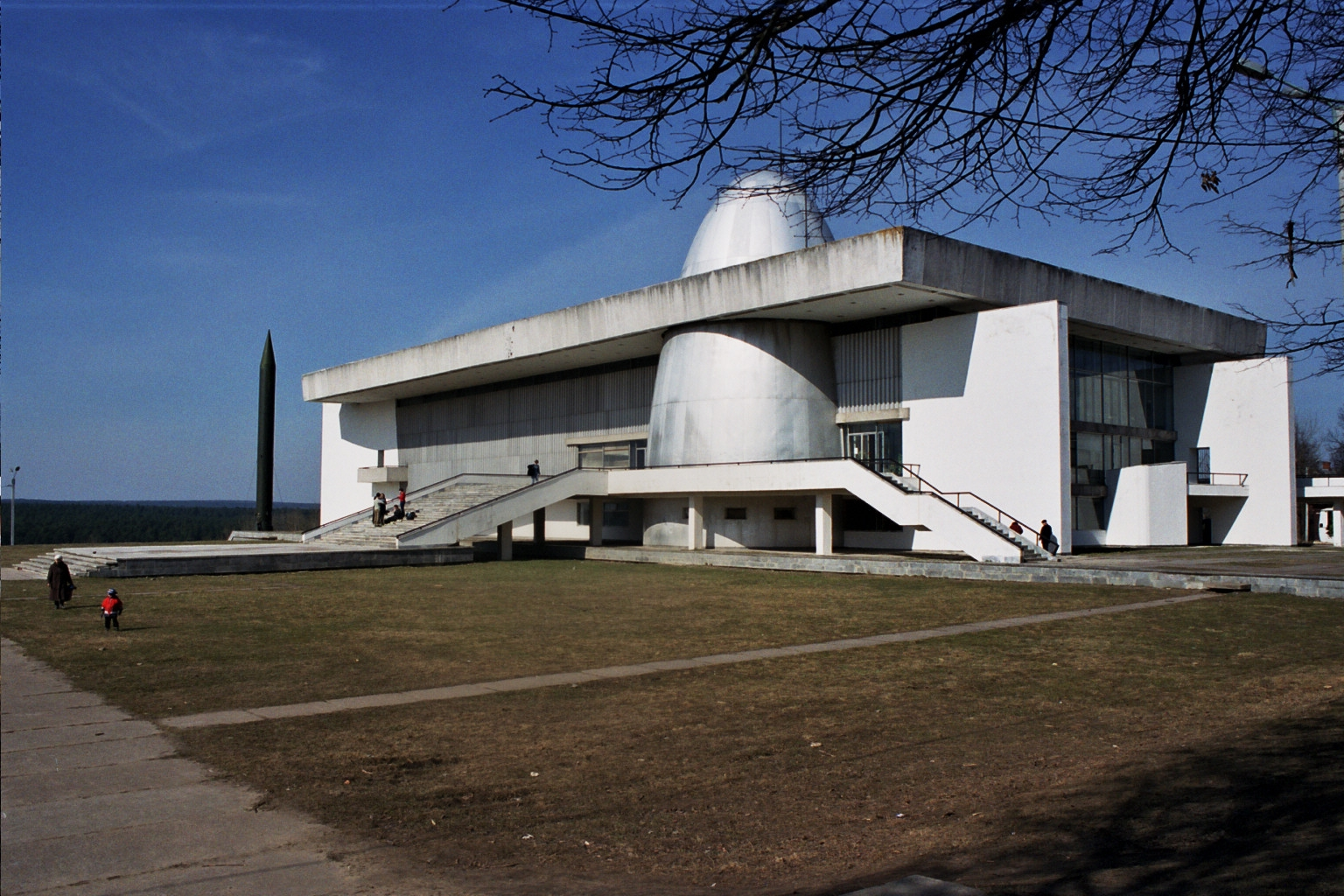 Space museum in Kaluga